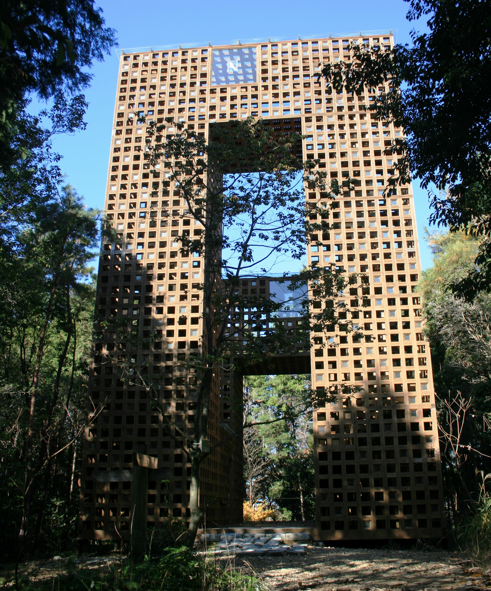 Waching Hill at Kaisho Forest